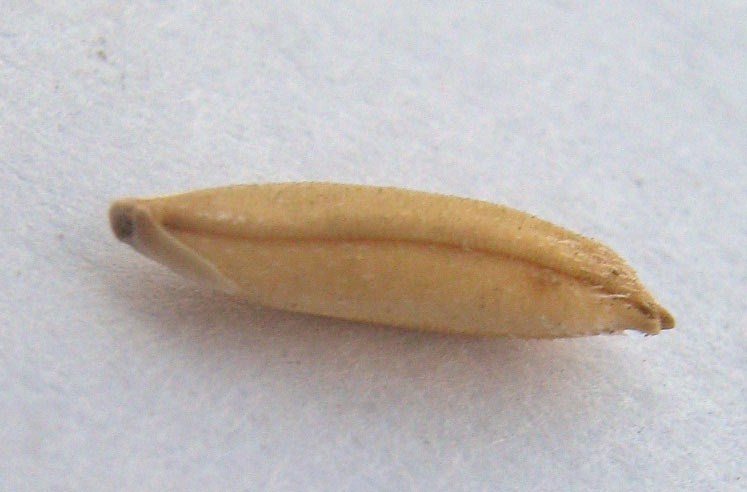 a grain of paddy from the state of Tamilnadu, India (nation)